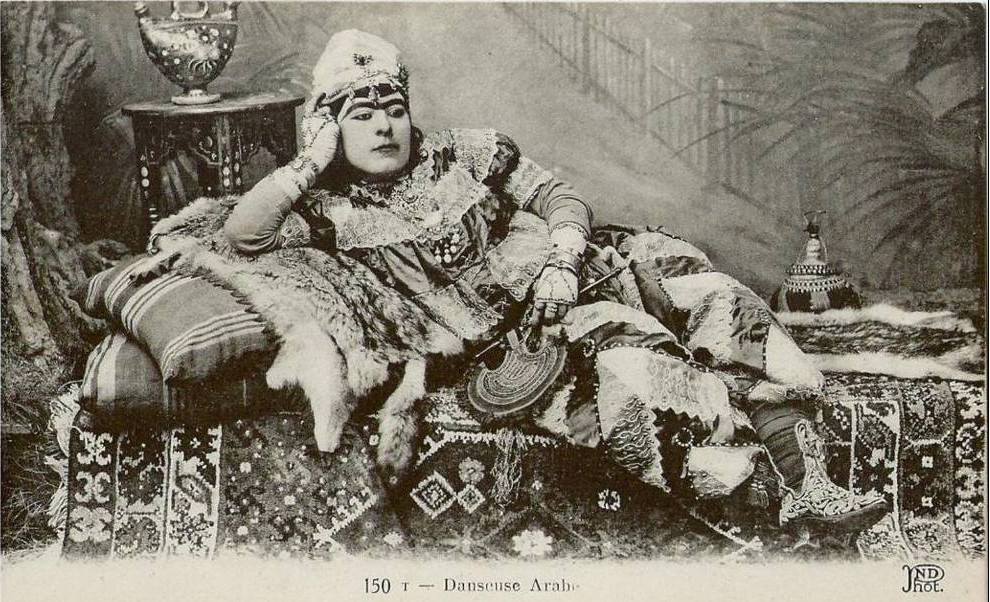 Ottoman dancer "Danseuse Arabe"